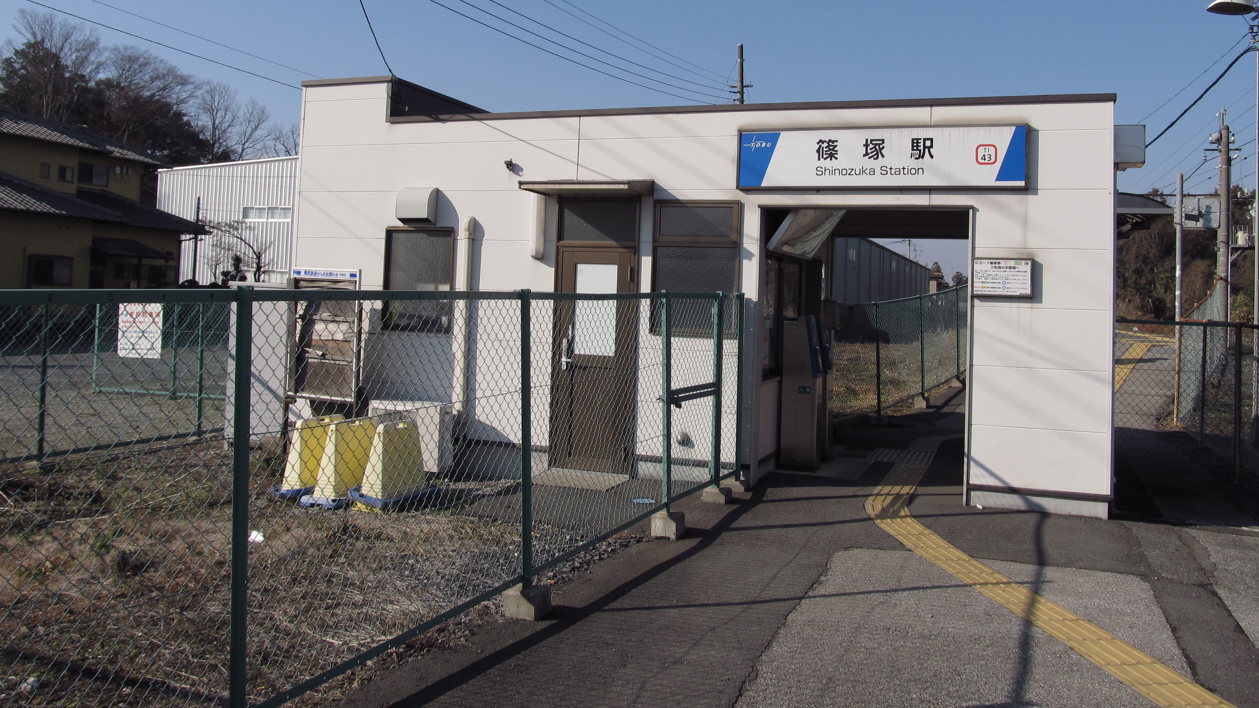 The entrance to Shinozuka Station on the Tobu Railway Koizumi Line in Ōra town, Gumma prefecture, Japan